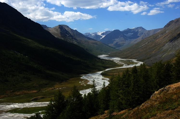 Khovd gol river